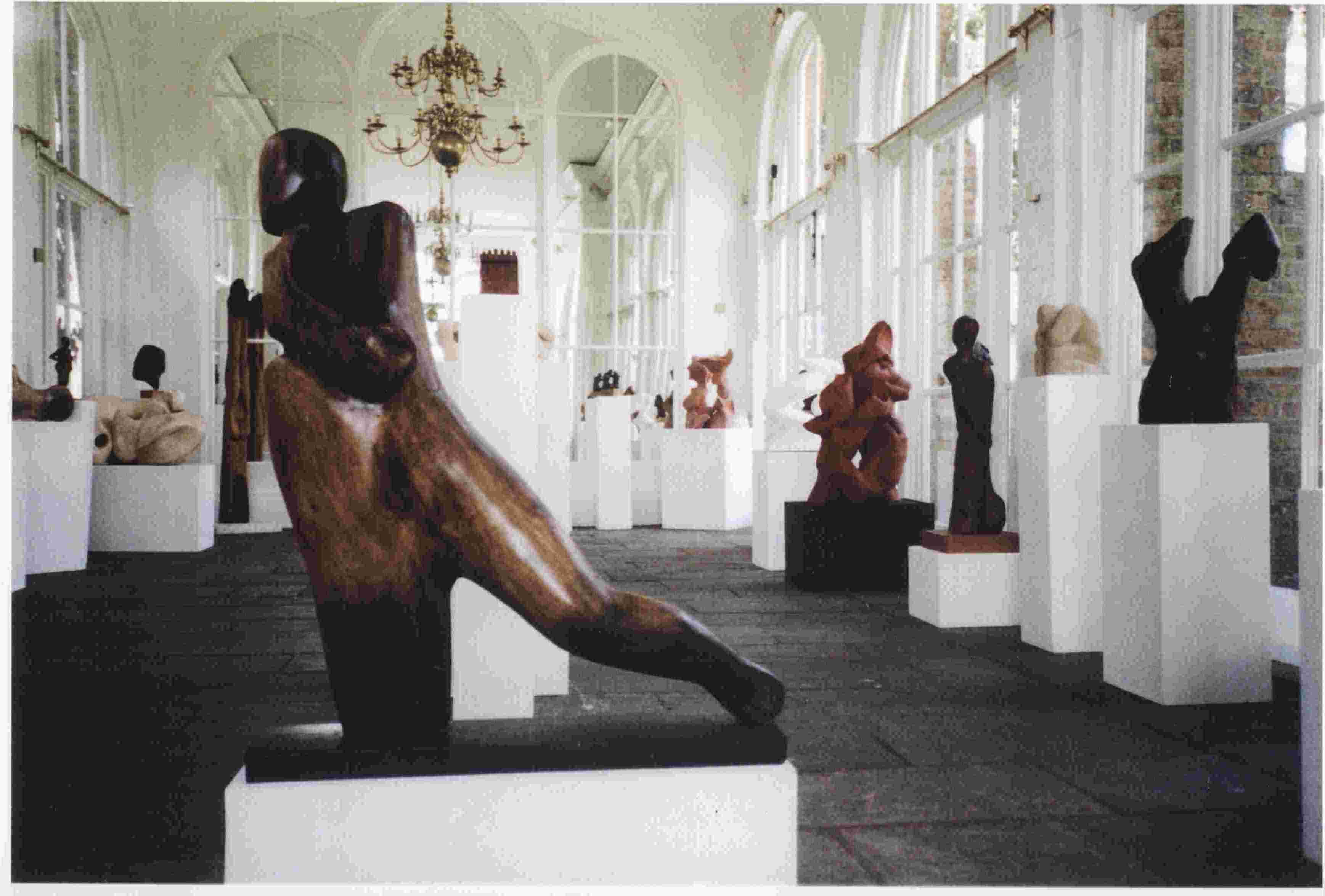 Carved from a single piece of walnut wood, The Warrior by Rita Phillips is shown here in as part of a group exhibition by students and teachers of The Frink School of Figurative Sculpture in 2004